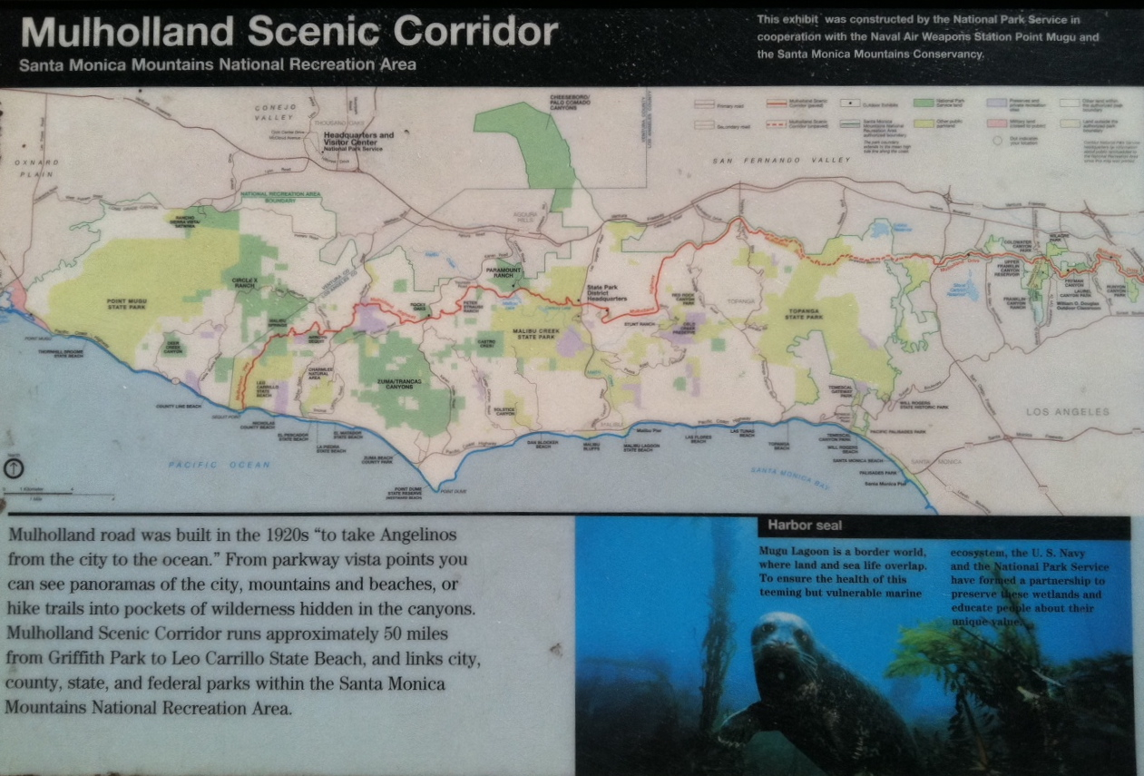 Map of Mulholland Highway — in the Santa Monica Mountains National Recreation Area. In Los Angeles County and Ventura County, Southern California.